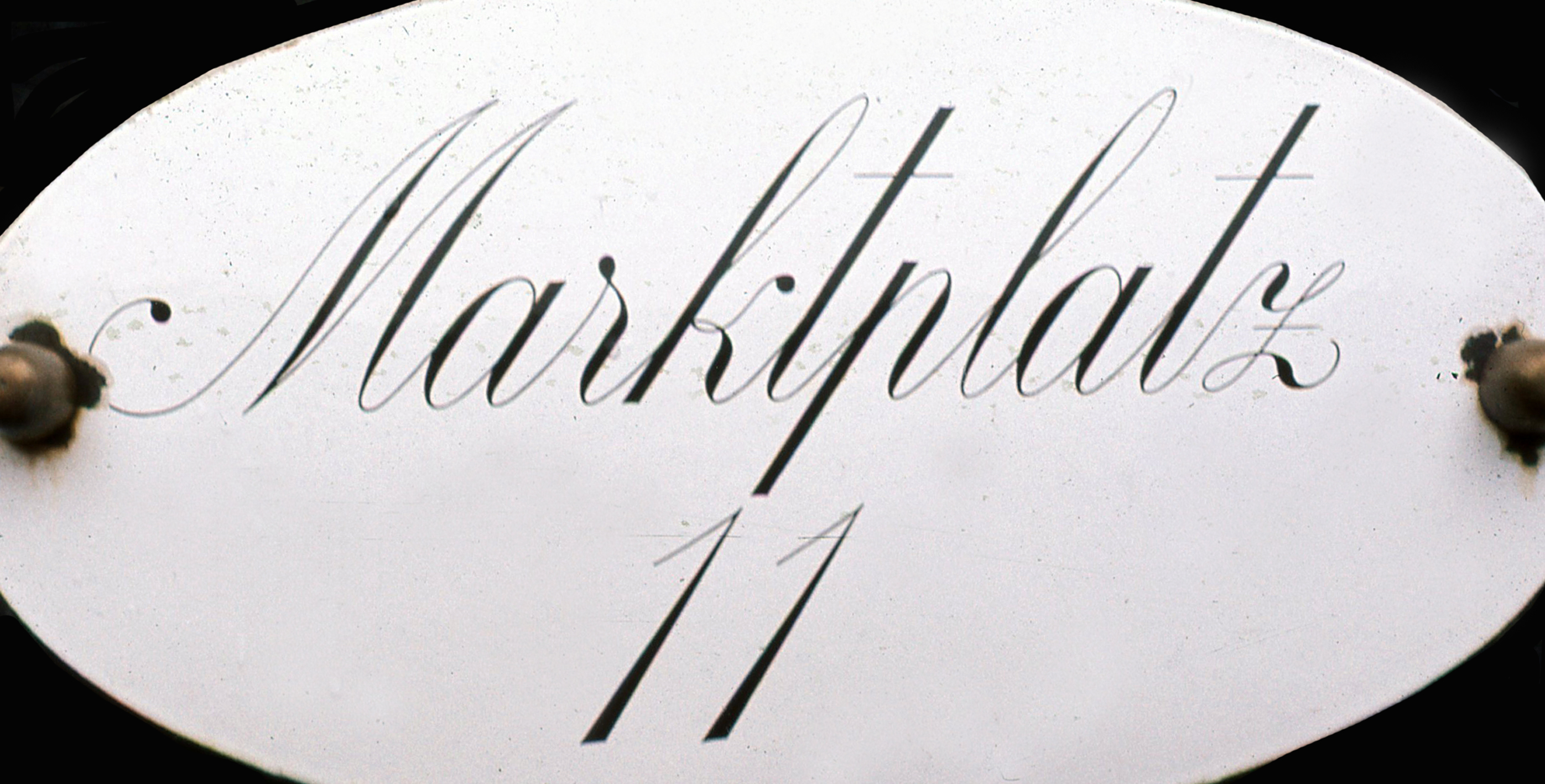 Store sign of Marktplatz 11 in Düsseldorf 1970ties/1980ties